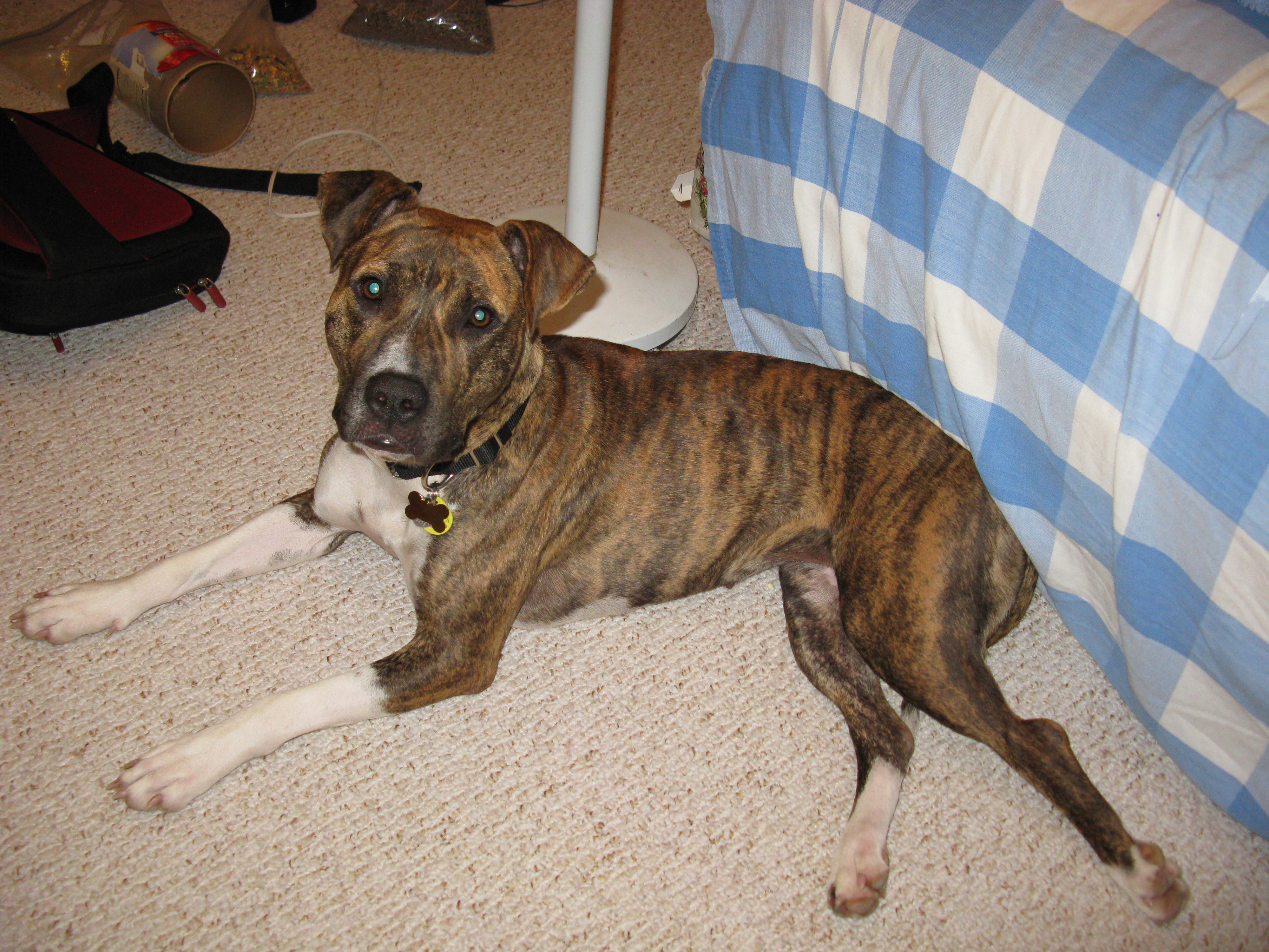 Brindled American Pit Bull Terrier chilling on the floor.